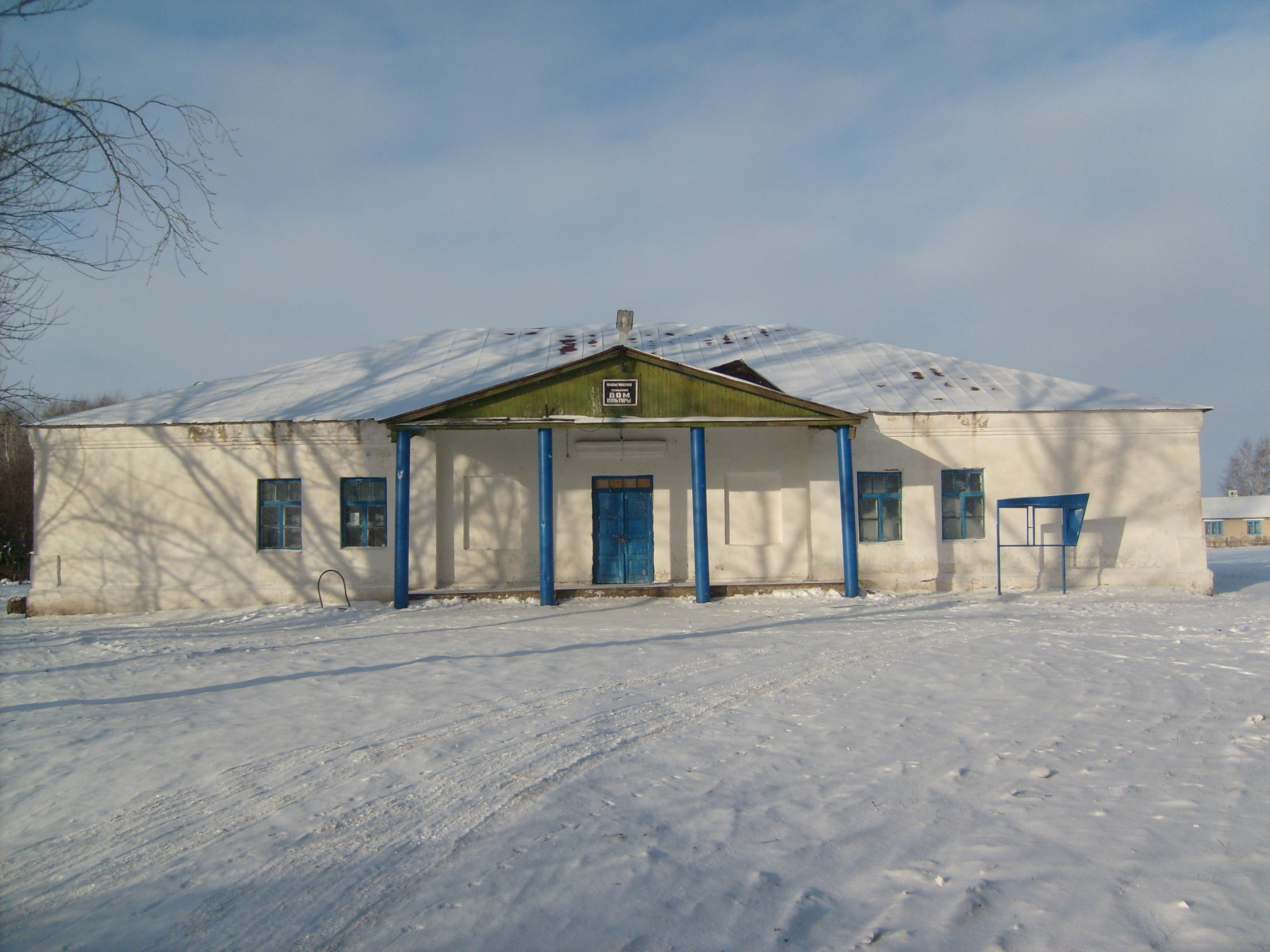 Шульгинский клуб